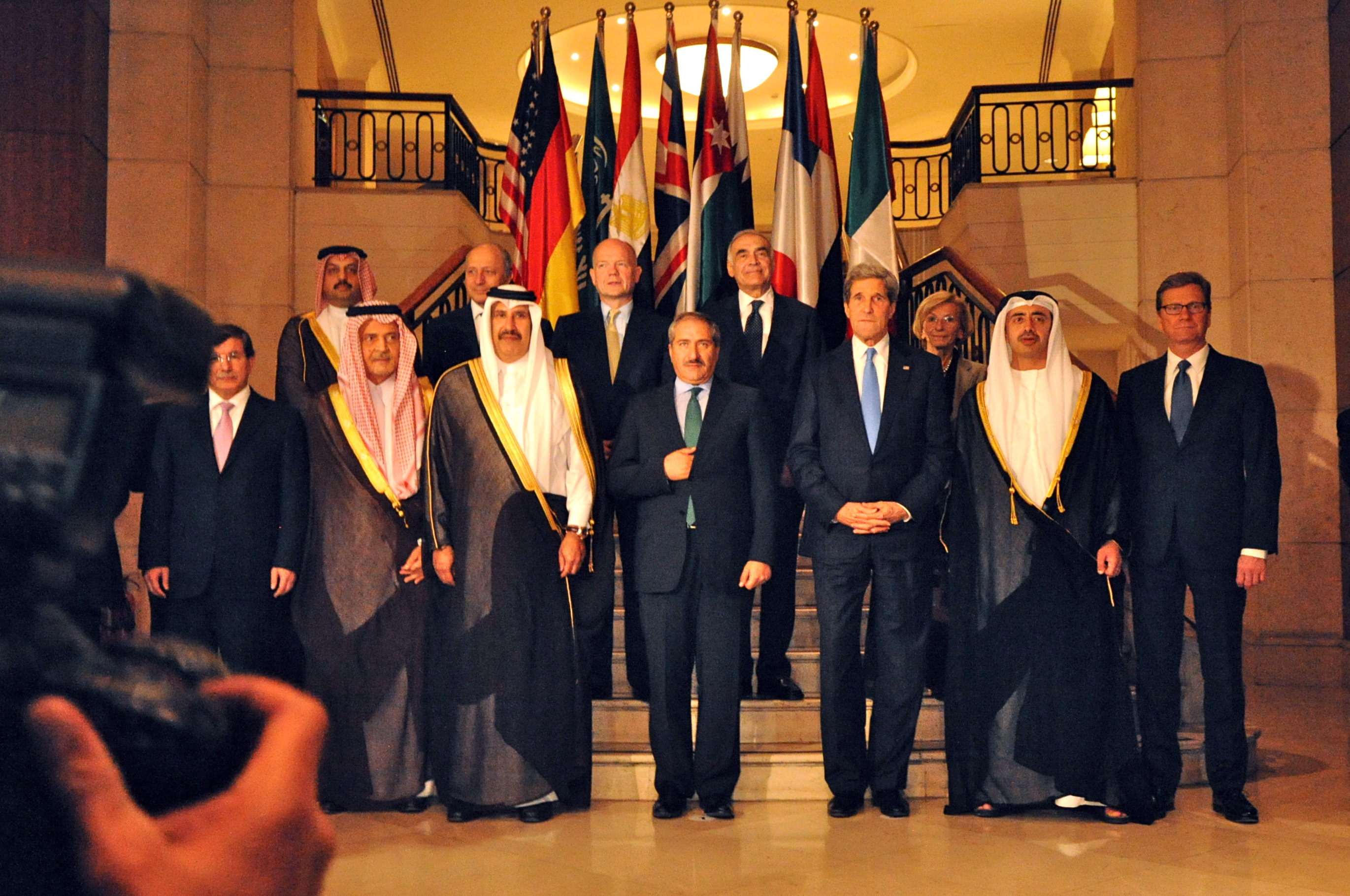 U.S. Secretary of State John Kerry poses for a family photo with fellow leaders of the London Eleven in Amman, Jordan, on May 22, 2013. Pictured in the front row from left to right are the following individuals: Turkish Foreign Minister Ahmet Davutoglu, Saudi Arabian Foreign Minister Prince Saud al-Faisal, Qatari Prime Minister Sheik Hamad bin Jassim Al Thani, Jordanian Foreign Minister Nasser Judeh, Secretary Kerry, United Arab Emirates' Foreign Minister Sheikh Abdullah Bin Zayed al-Nahyan, and German Foreign Minister Guido Westerwelle. Pictured in the top row from left to right are the following individuals: Qatari Foreign Minister Khalid bin Mohamed Al-Attiyah, French Foreign Minister Laurent Fabius, British Foreign Secretary William Hague, Egyptian Foreign Minister Mohamed Kamel Amr, and Italian Foreign Minister Emma Bonino. [State Department photo/ Public Domain]